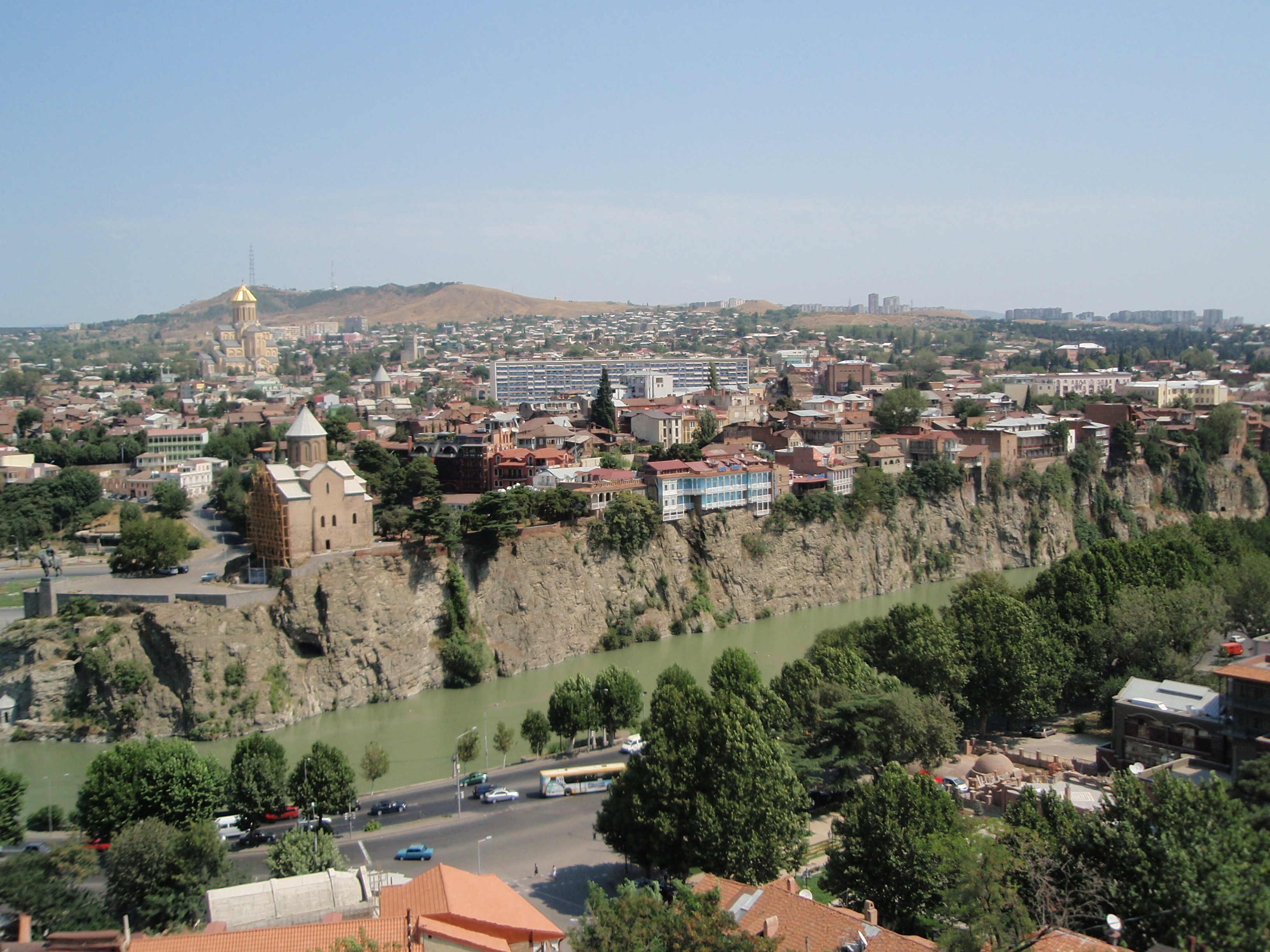 Mtkvari River cliff in Tbilisi (Georgia)